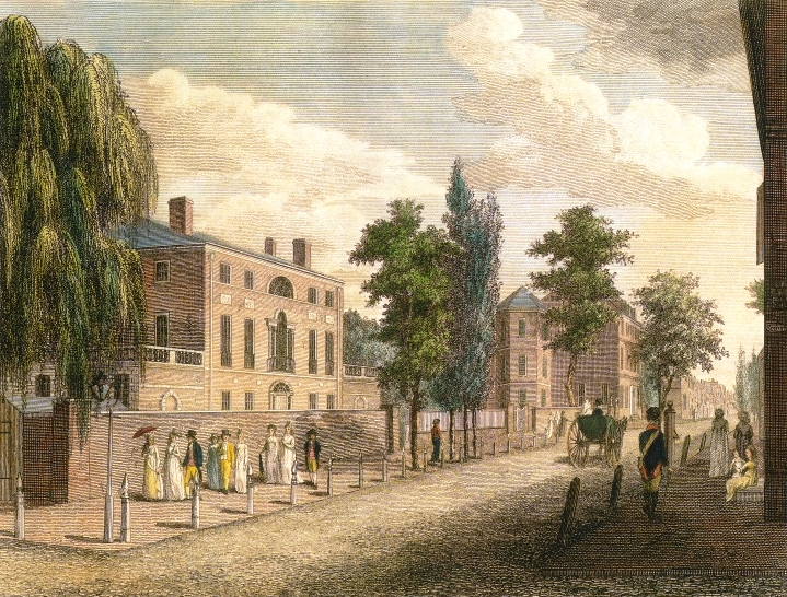 "View in Third Street, from Spruce Street Philadelphia." Plate 18 from The City of Philadelphia as it appeared in the Year 1800. Published by W. Birch, Springland Cot. near Neshaminy Bridge on the Bristol Road; Pennsylvania. Decr. 31st 1800.